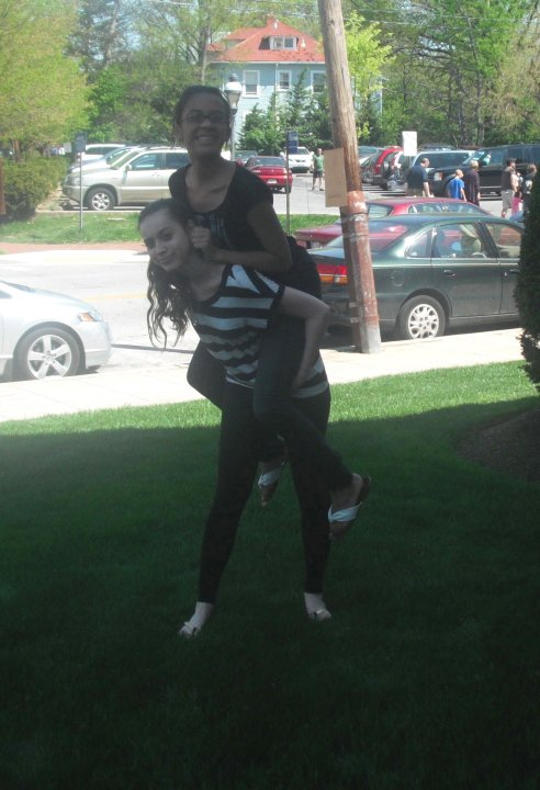 The Love.